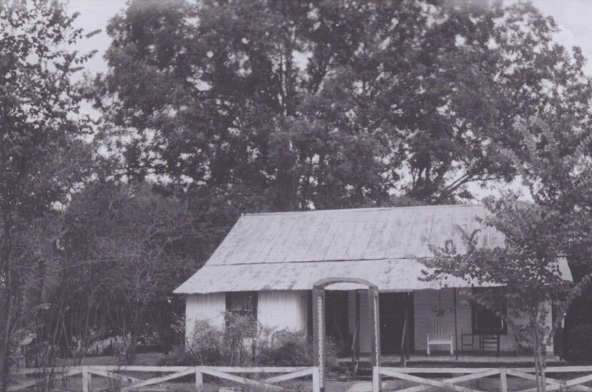 Cannon Farm